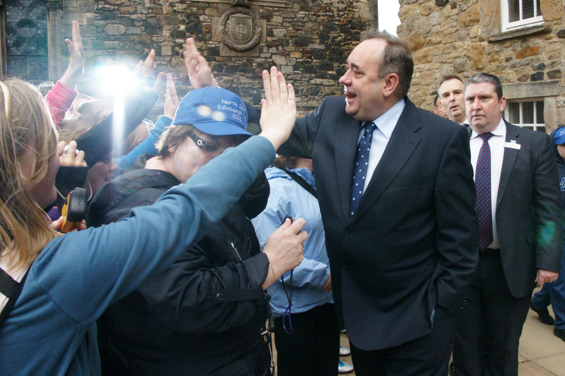 First Minister of Scotland, Alex Salmond meets bystanders in Edinburgh Castle